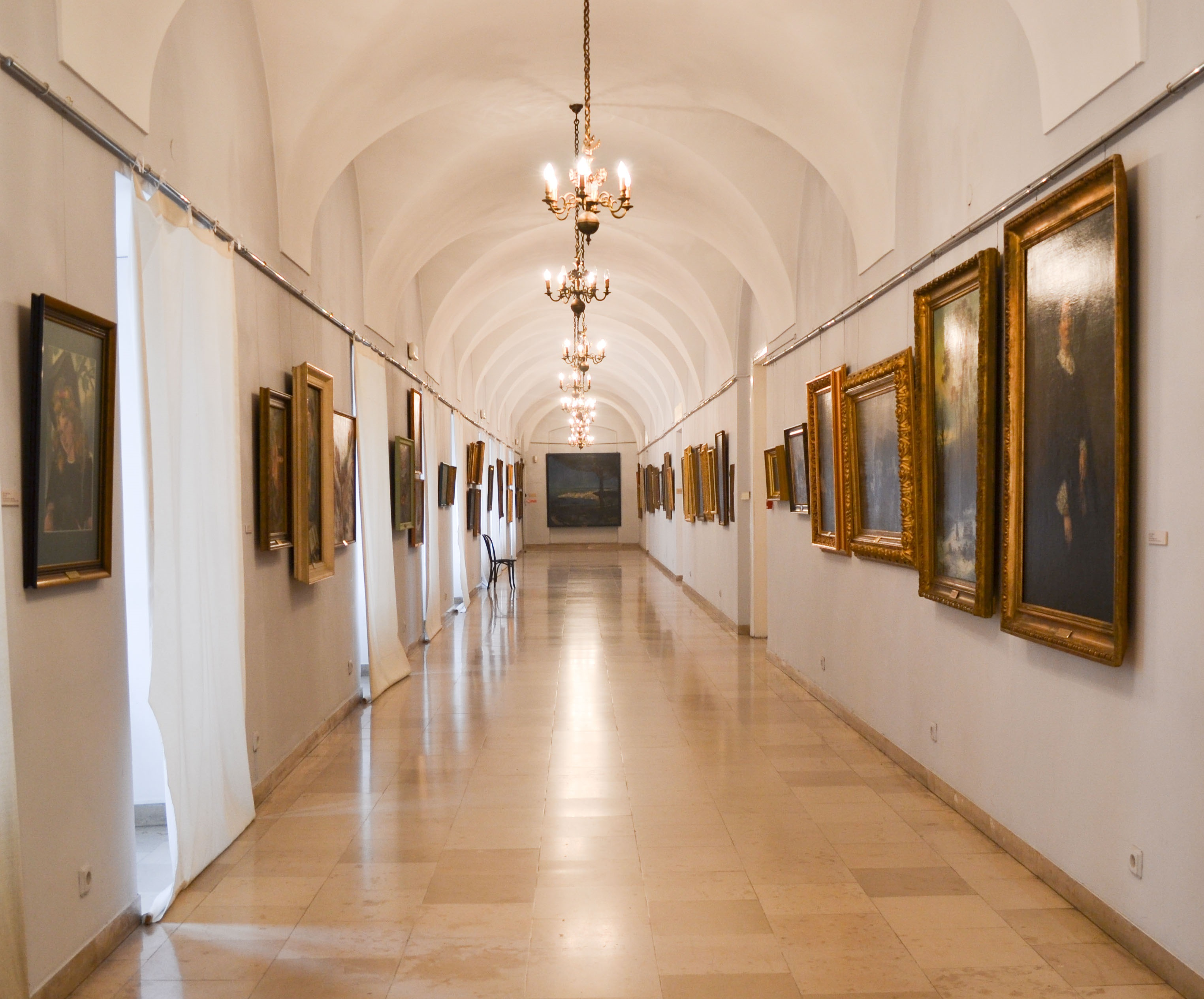 Gallery of Polish Painting of the 19. and 20. Century, Jacek Malczewski Museum in Radom, Poland